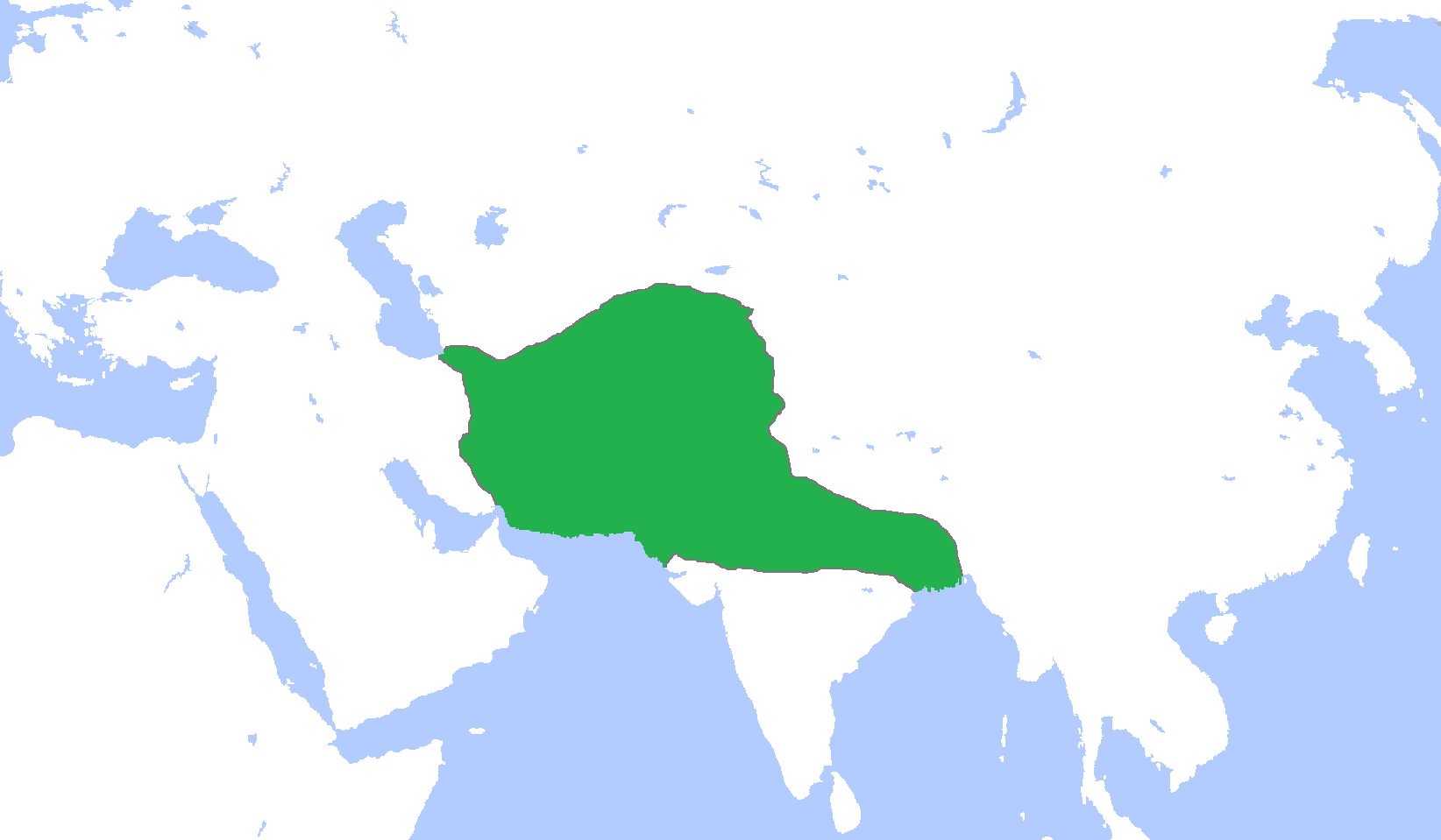 Locator map of the Ghurid Empire, c. 1200. (Partially based on Atlas of World History (2007) - The World 1000-1200, map)